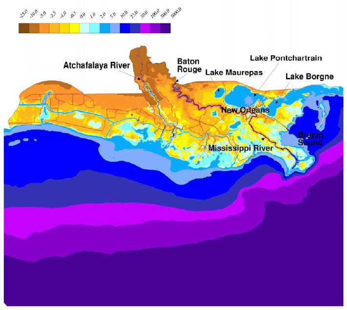 Bathymetry and topography across Southern Louisiana Reference: A New Generation of Hurricane Storm Surge Model for Southern Louisiana